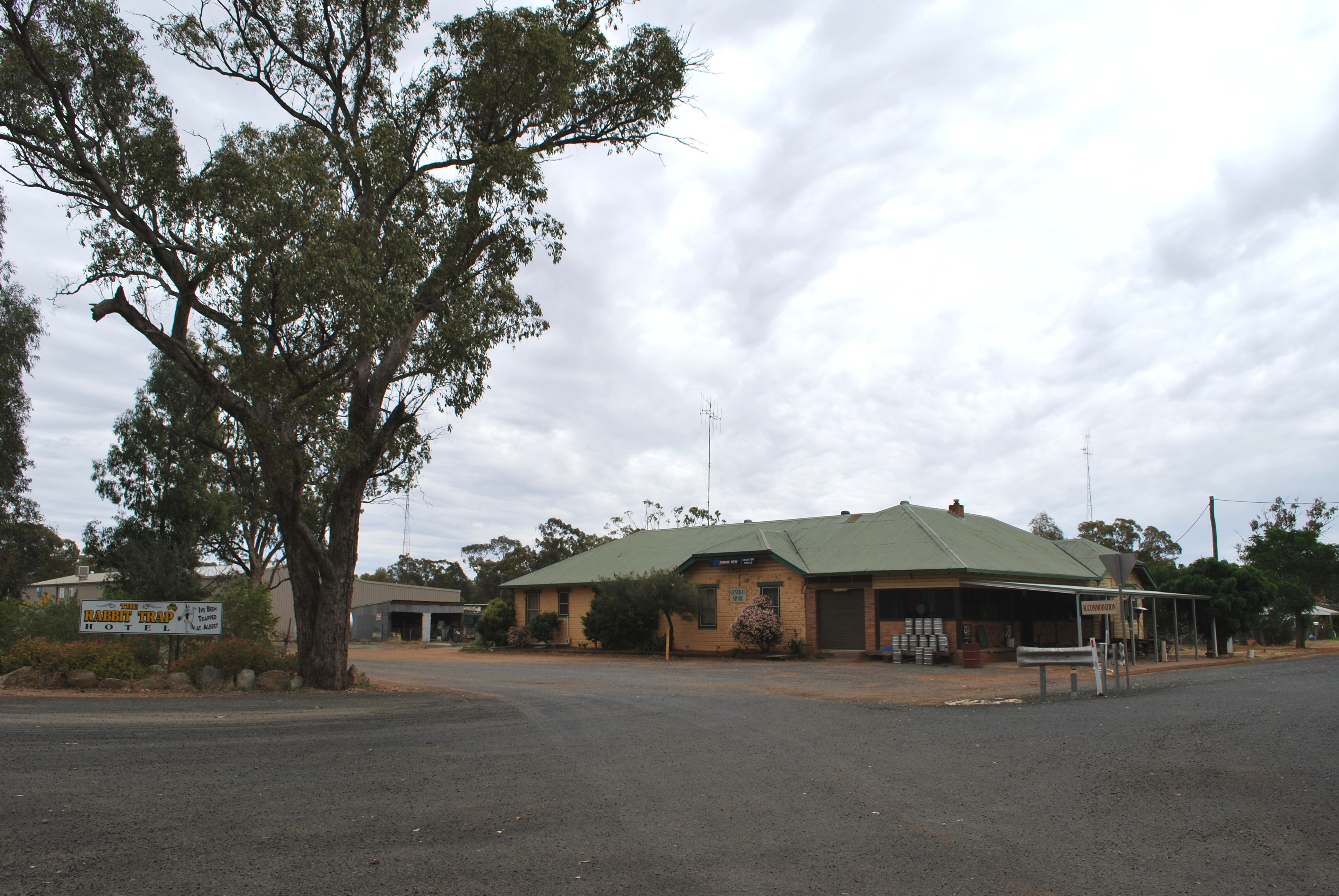 The Rabbit Trap Hotel at Albert, New South Wales